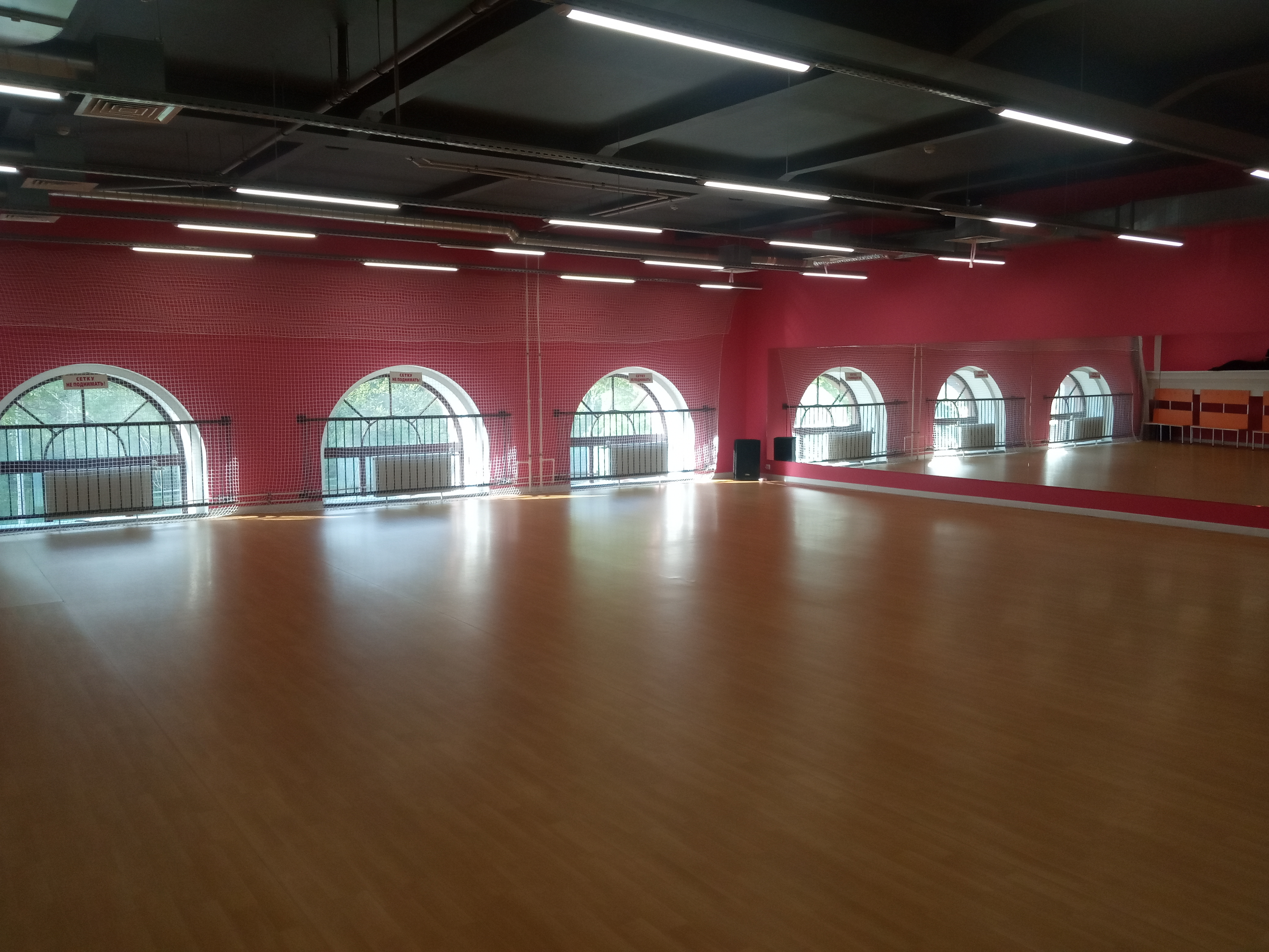 Dancing hall in Energy club